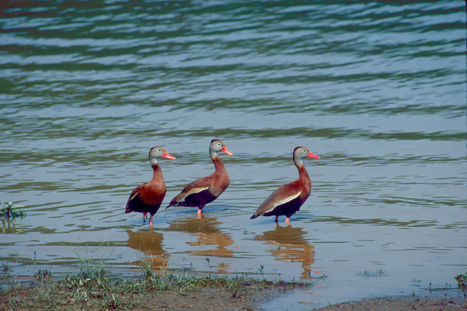 Black-bellied Whistling Ducks Dendrocygna autumnalis Fulvous Whistling Ducks near Saltsburg, Pennsylvania, USA.